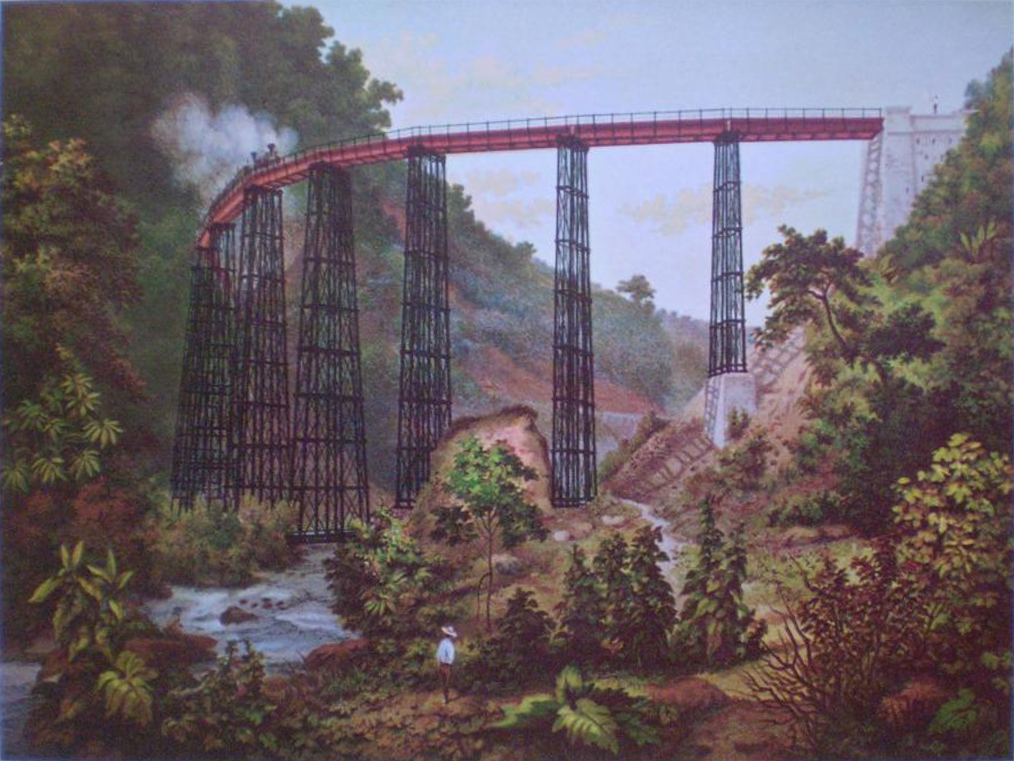 .Picture from the "Album of the Mexican Railway". Pictues by Casimiro Castro. Text by: Antonio Garcia Cubas. Published by Víctor Debray. Year: 1877 Bilanguage edition english and spanish.